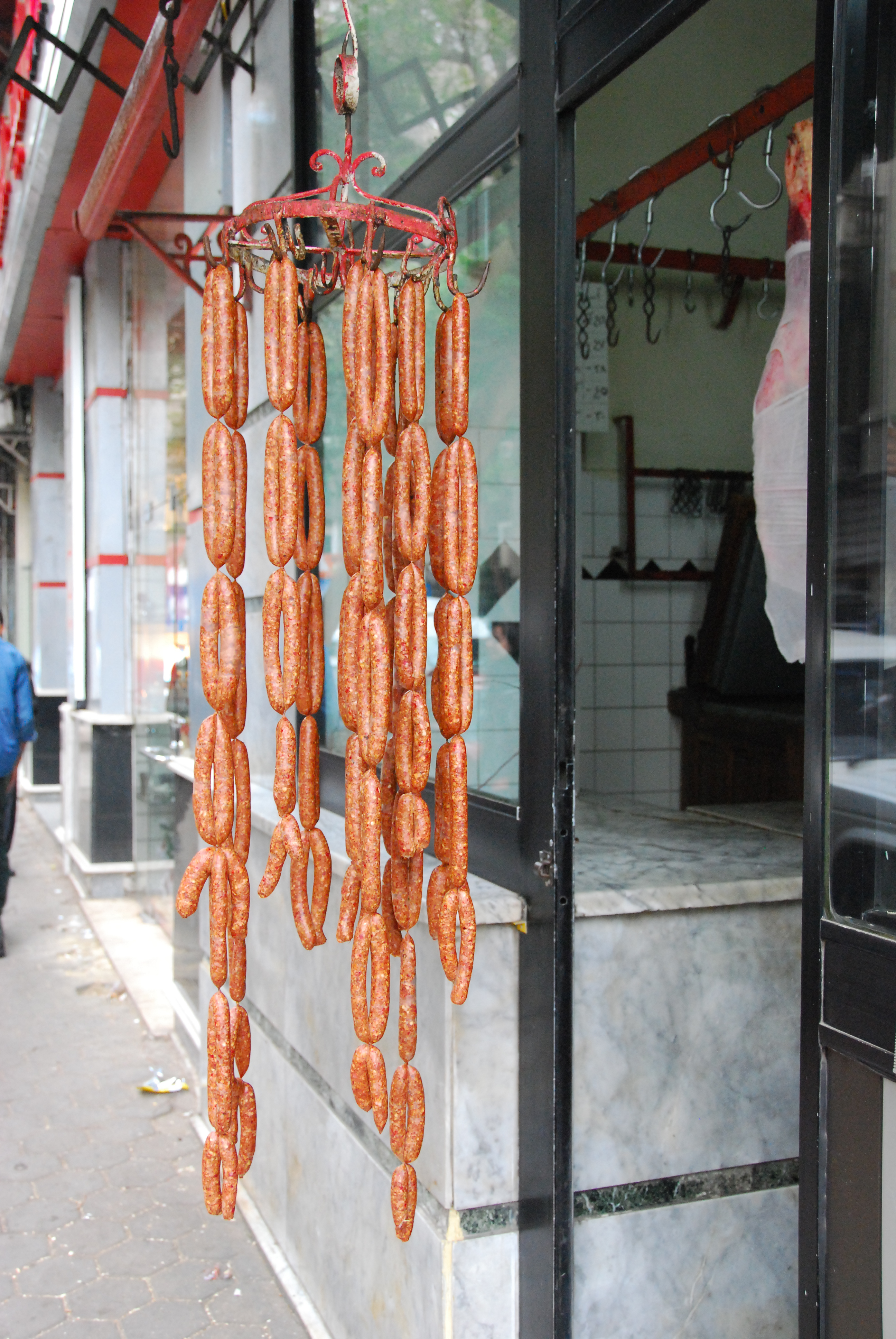 sausages on display outside a butchers shop in garden city, Cairo